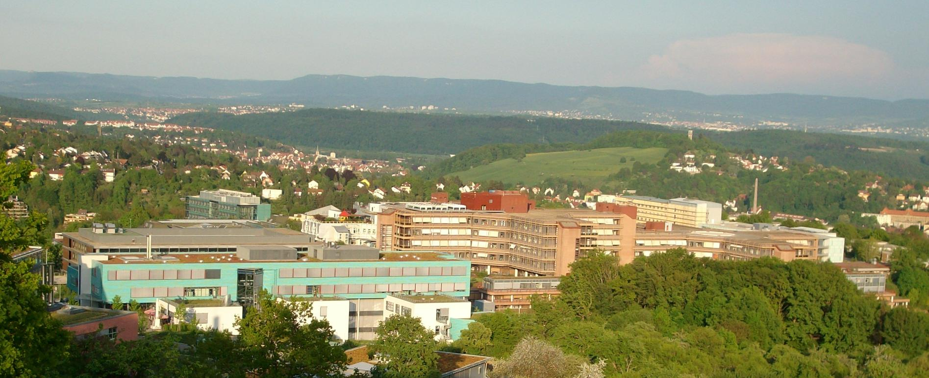 University Hospital Tübingen: "Kliniken Berg" (clinics on the hill). Left, cyan: Otolaryngology. Right, brown: "CRONA". Behind, left, white: Children's hospital. Behind, right, yellow: Internal medicine.